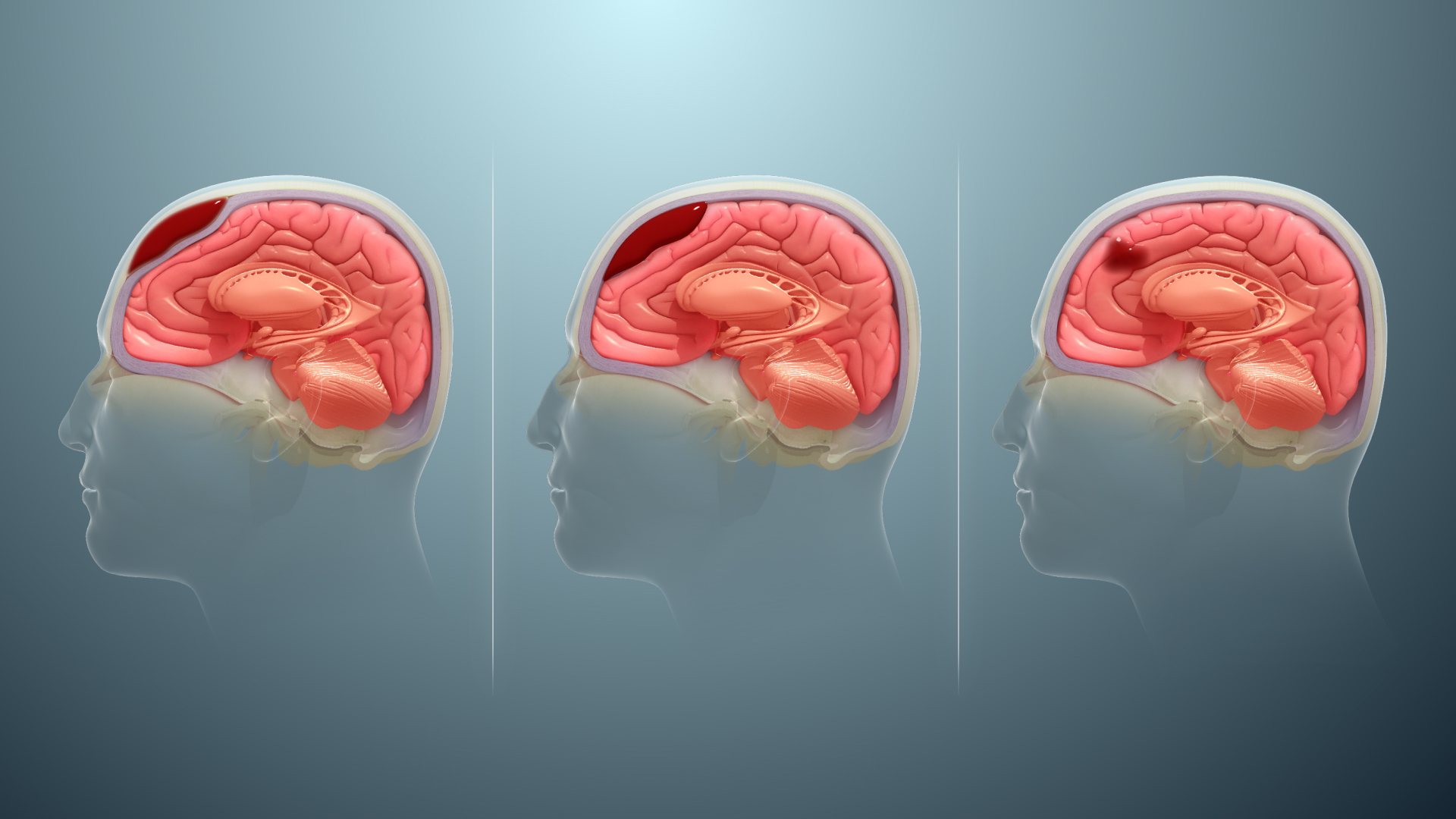 A depiction of various types of cerebral Hematoma(L to R) - Epidural Hematoma, Subdural Hematoma, and Intracranial Hematoma.